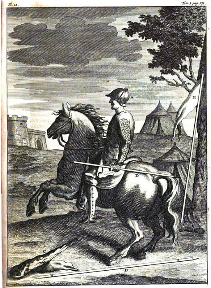 Estradiot on his horse, his weapons. Engraving.